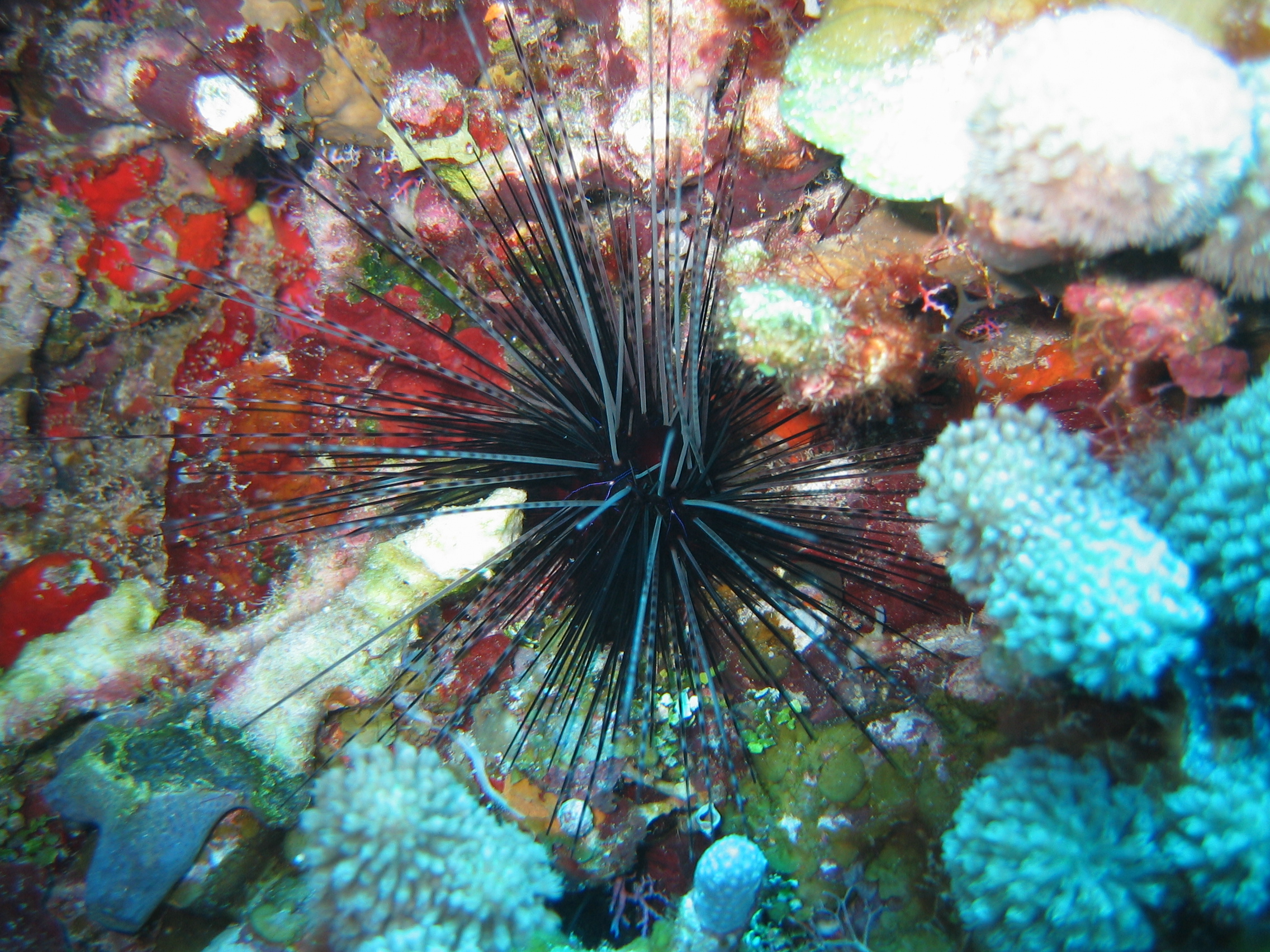 The sea urchin Diadema antillarum.